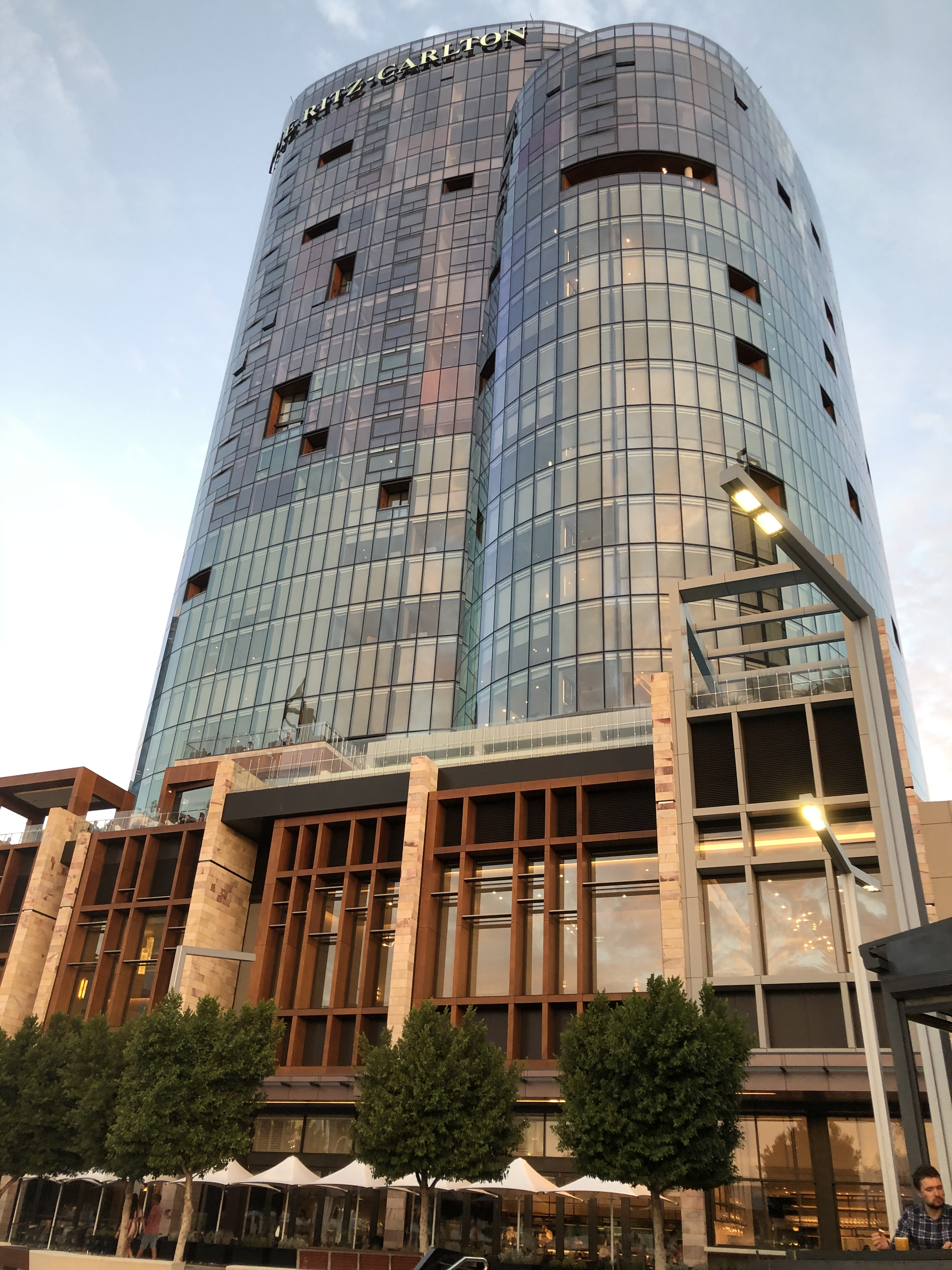 The view of the Ritz-Carlton from Elizabeth Quay (western elevation)